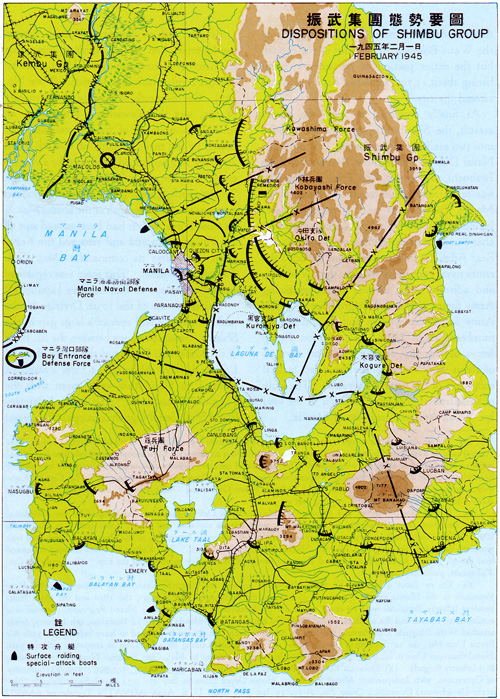 Dispositions of the Shimbu Group,1 February 1945